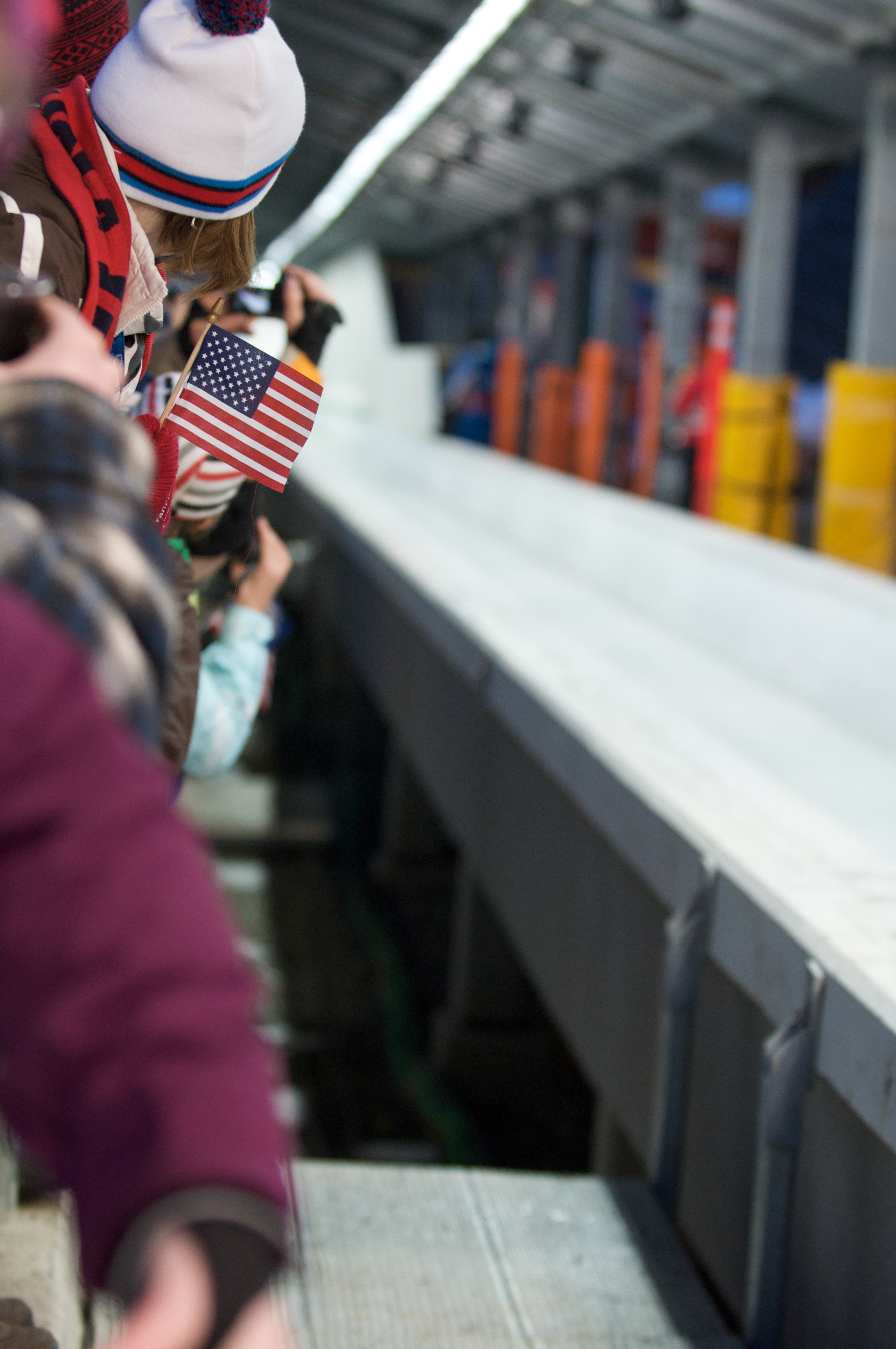 Spectators at the Whistler Sliding Centre watching lugers pass the point where Georgian slider Nodar Kumaritashvili crashed and died.